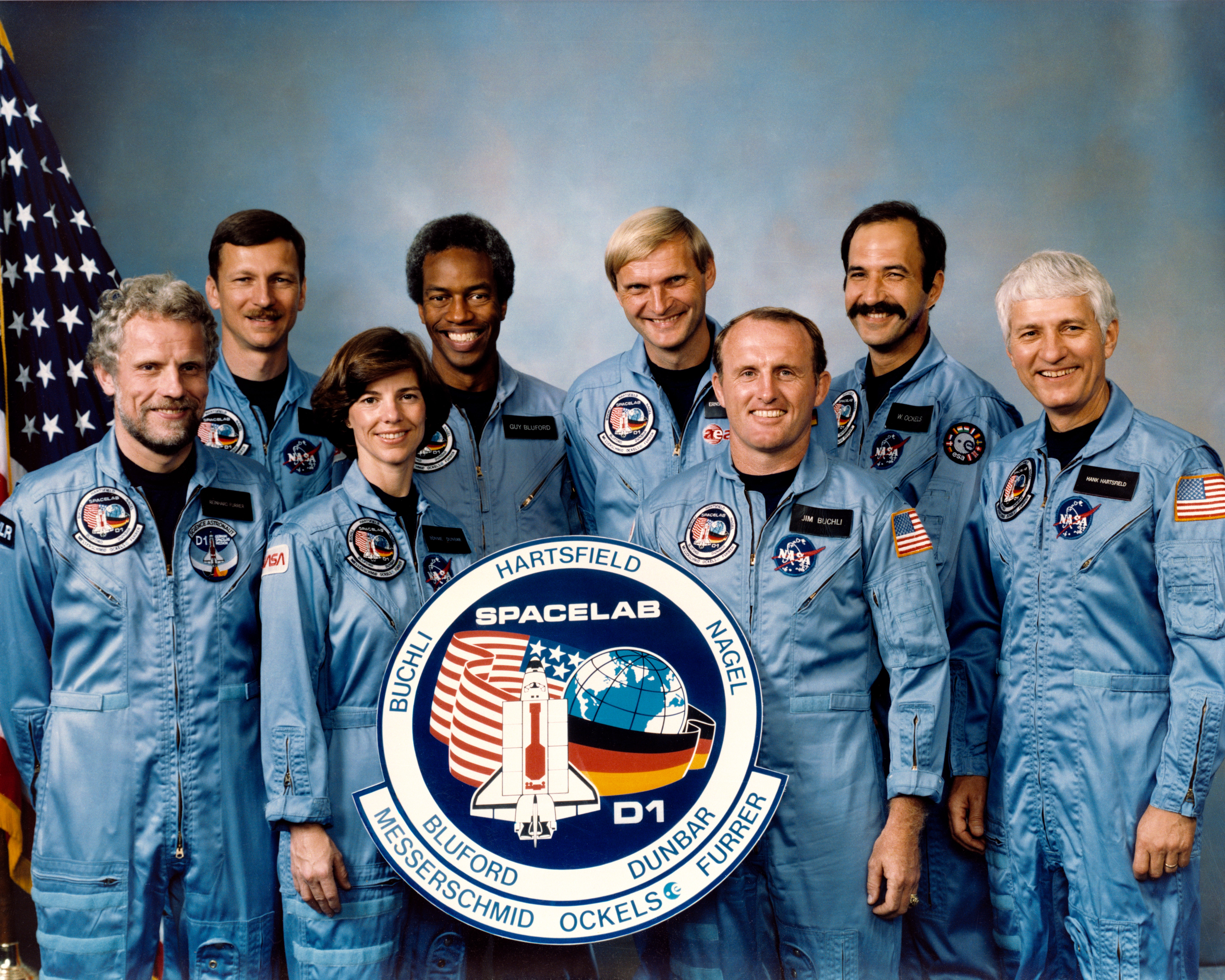 The crew assigned to the STS-61A mission included (front row left to right) Reinhard Furrer, German payload specialist; Bonnie J. Dunbar, mission specialist; James F. Buchli, mission specialist; and Henry W. Hartsfield, Jr., commander. On the back row, left to right, are Steven R. Nagel, pilot; Guion S. Bluford, mission specialist; Ernst Messerschmid, German payload specialist; and Wubbo J. Ockels, Dutch payload specialist. Launched aboard the Space Shuttle Challenger on October 30, 1985 at 12:00:00 noon (EST), the STS-61A mission's primary payload was the Spacelab D-1 (German Spacelab mission).